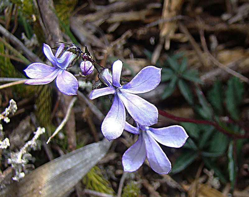 A small species, native to the higher mountains of Costa Rica and western Panama. Here on Cerro de la Muerte, Costa Rica. In context at